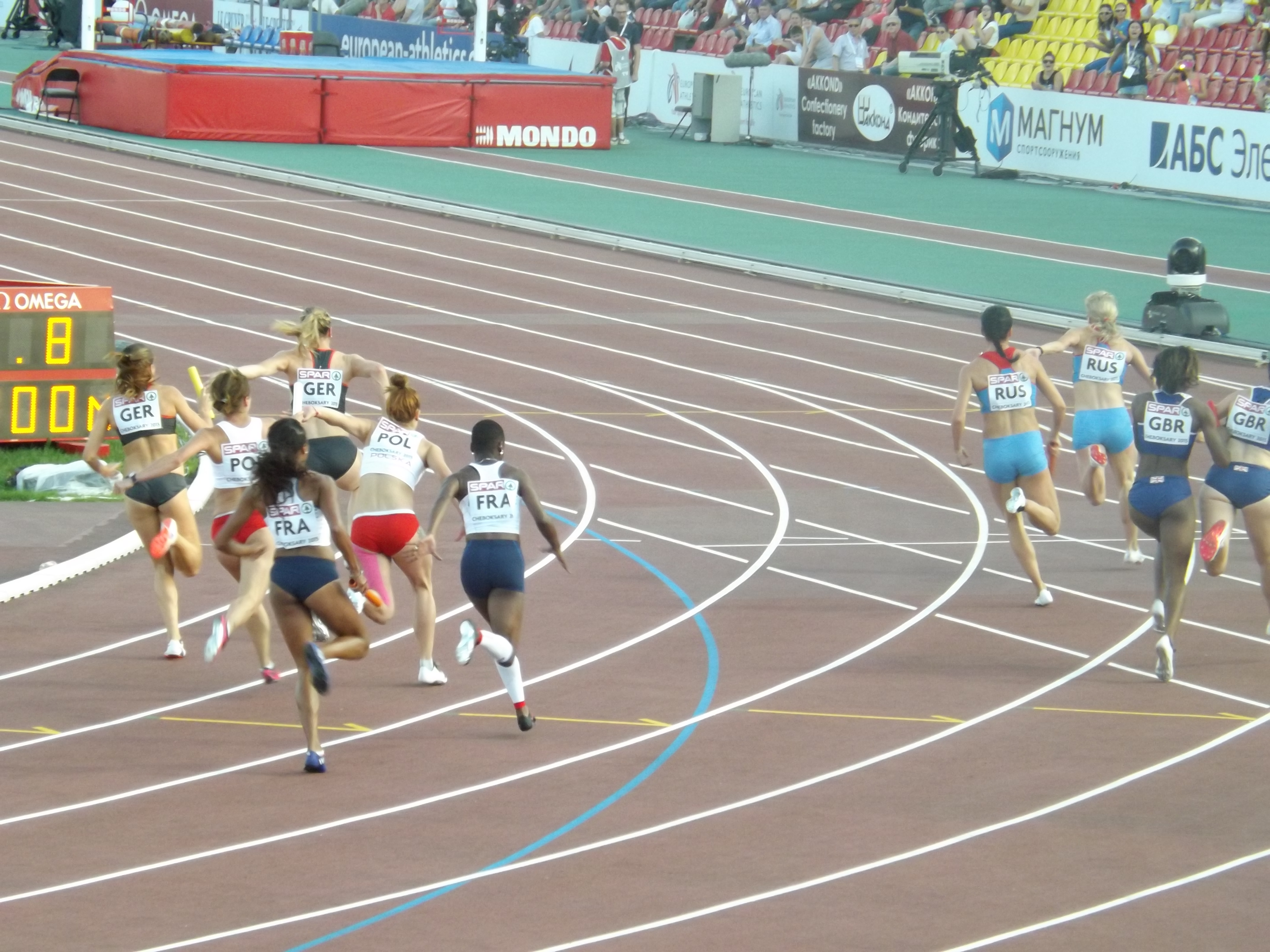 Heat 2 in women 4x100 metres relay during 2015 European Team Champioships